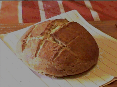 Sourdough Bread